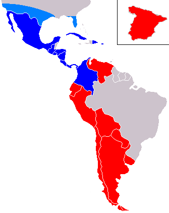 Differences in the names given to the Spanish Language, red= Castilian (Castellano), blue and light blue = Spanish (Español)